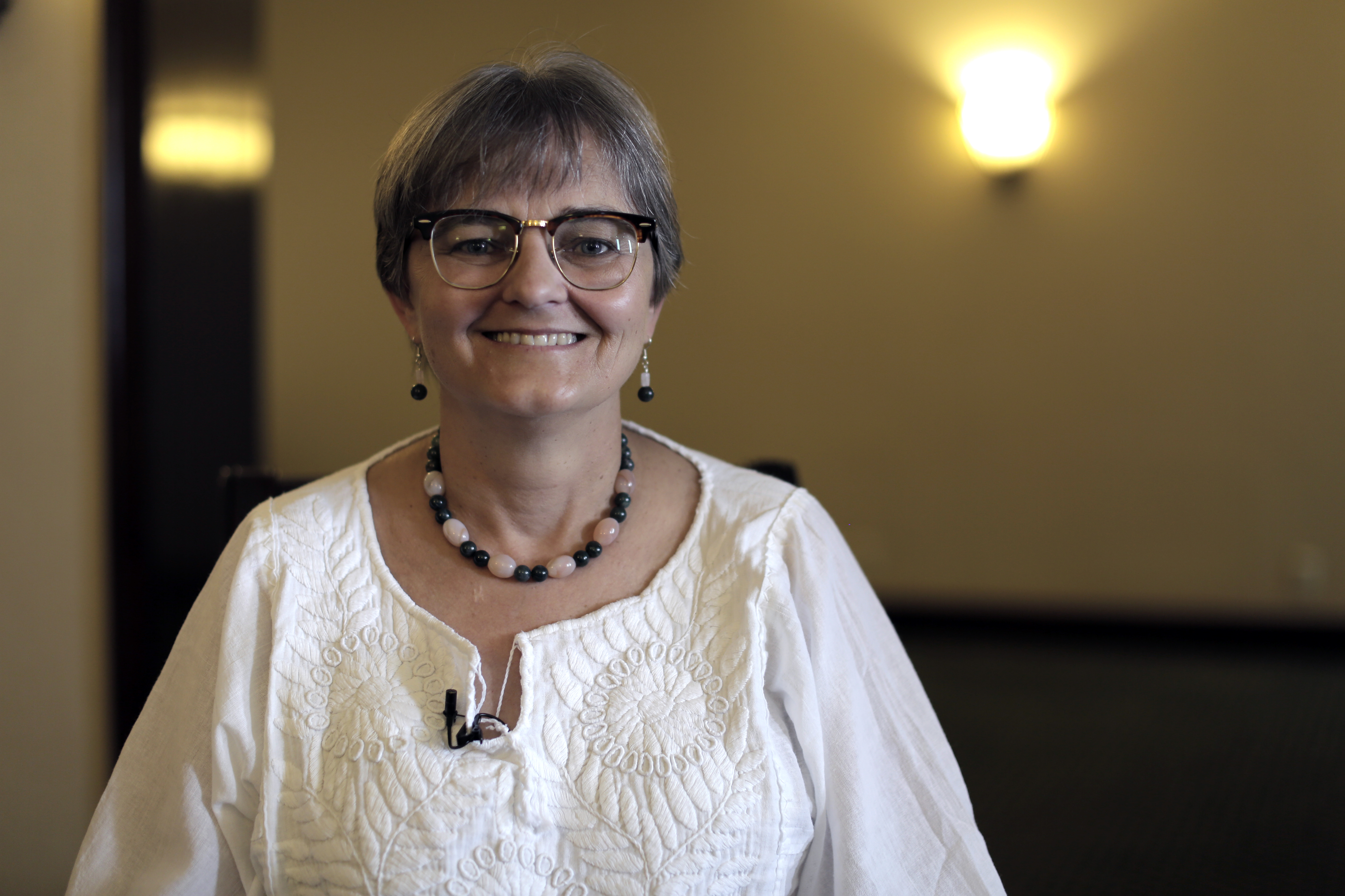 Joy Olson attending Ambulante Festival 2017. Picture by Ernesto Vargas / Festival Ambulante.